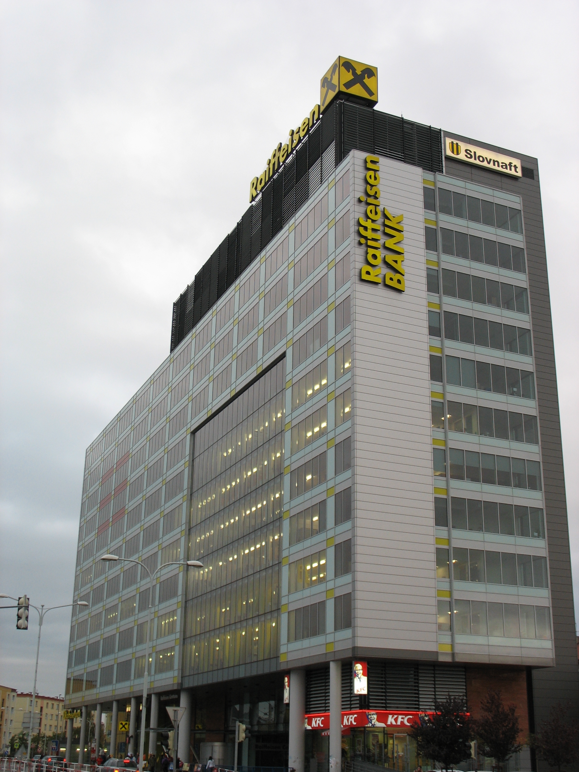 Czech Republic, Prague, Olbrachtova 2006/9